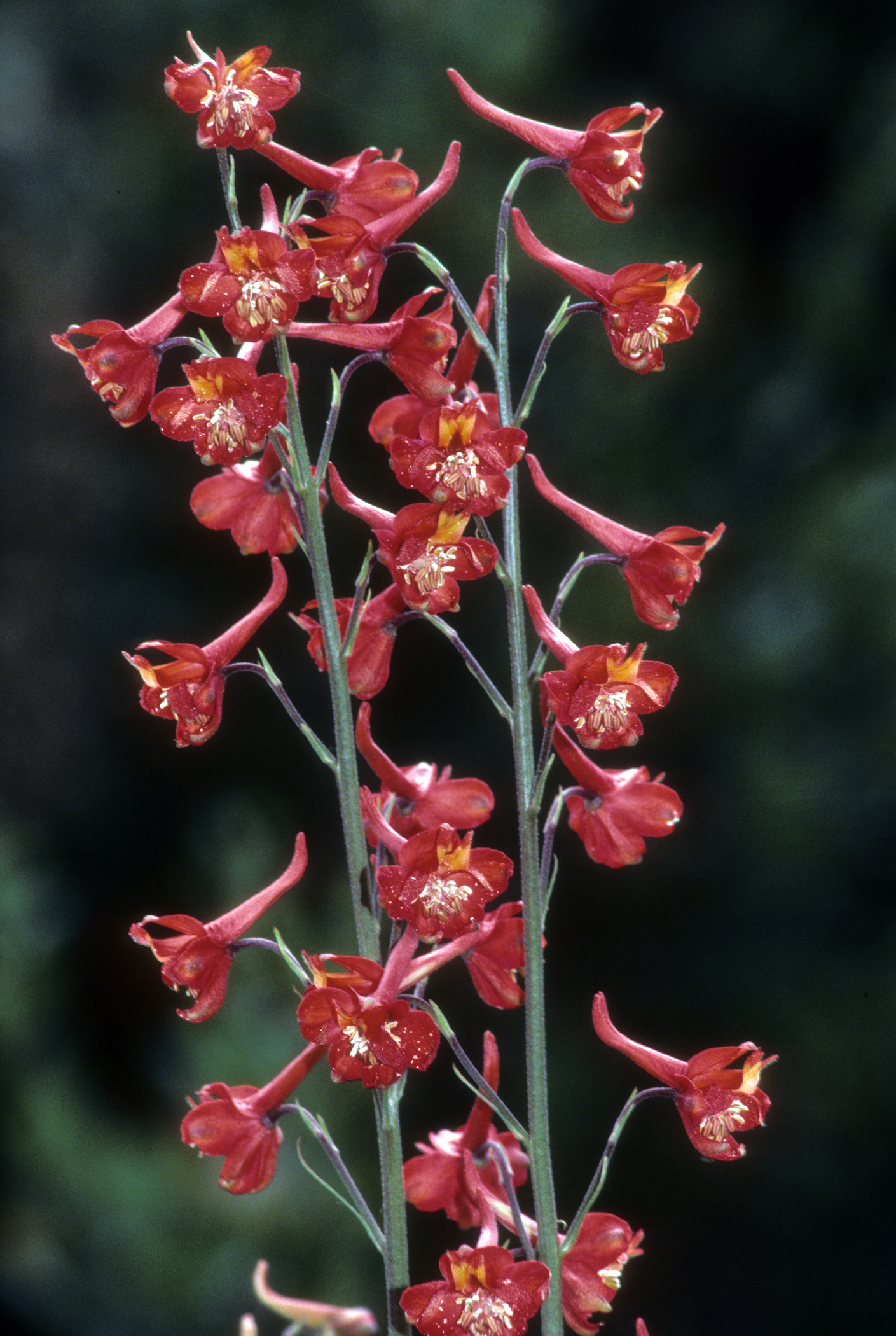 Delphinium cardinale — Cardinal larkspur. A Delphinium native to California chaparral and woodlands habitats. San Bernardino County, Southern California. June 1986. The site where this photo was taken, between Upland and Claremont, has now been built over. "This fantastic, hummingbird-pollinated Delphinium is one of my favorites". This color was bred into a group of hybrid garden delphiniums in the U.S. by Reinelt and Samuelson.